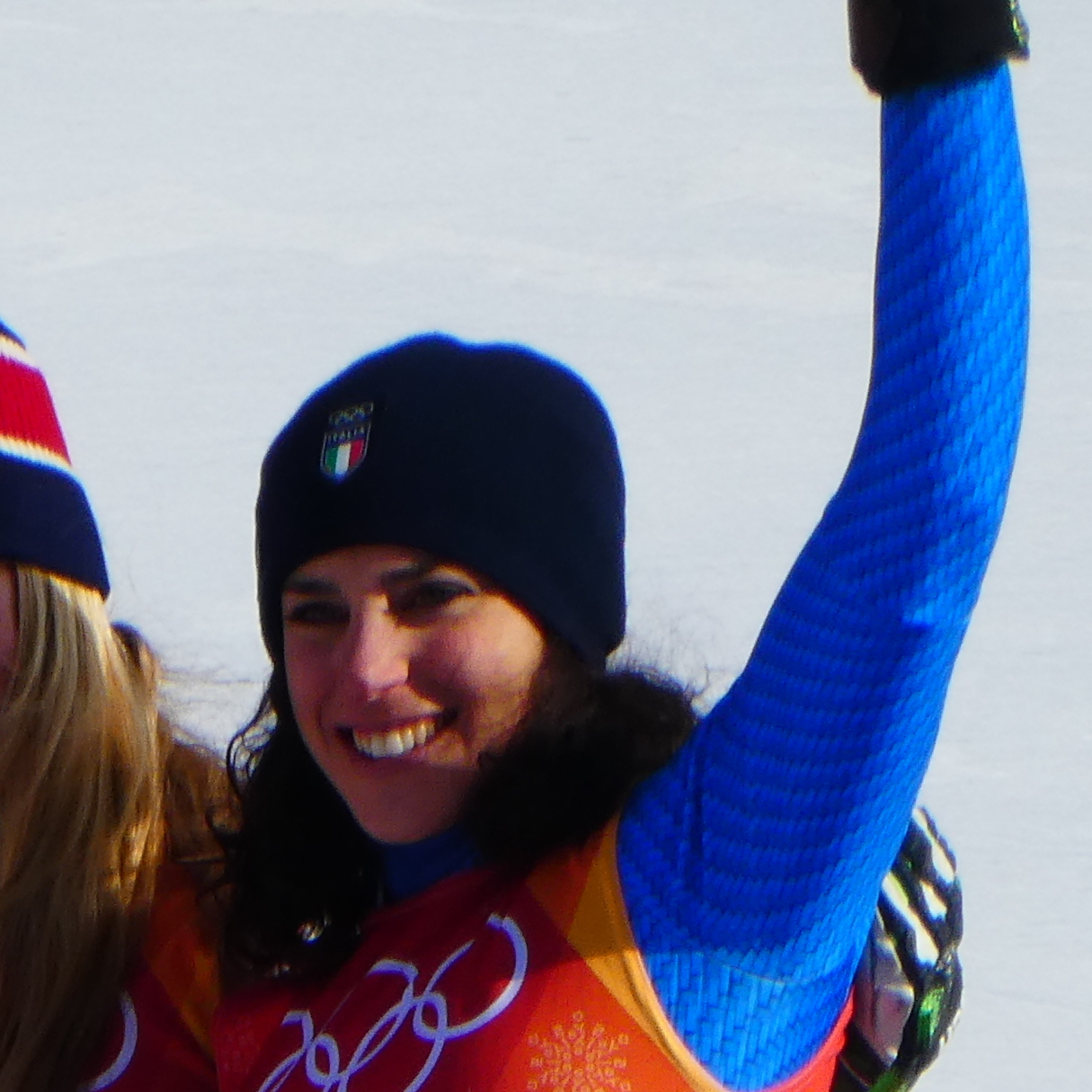 Yongpyeong, site du ski alpin, slalom géant féminin Ragnhild Mowinckel, of Norway (silver) at left, Gold is Mikaela Shiffrinof USA in centre and bronze to Federica Brignone of Italy